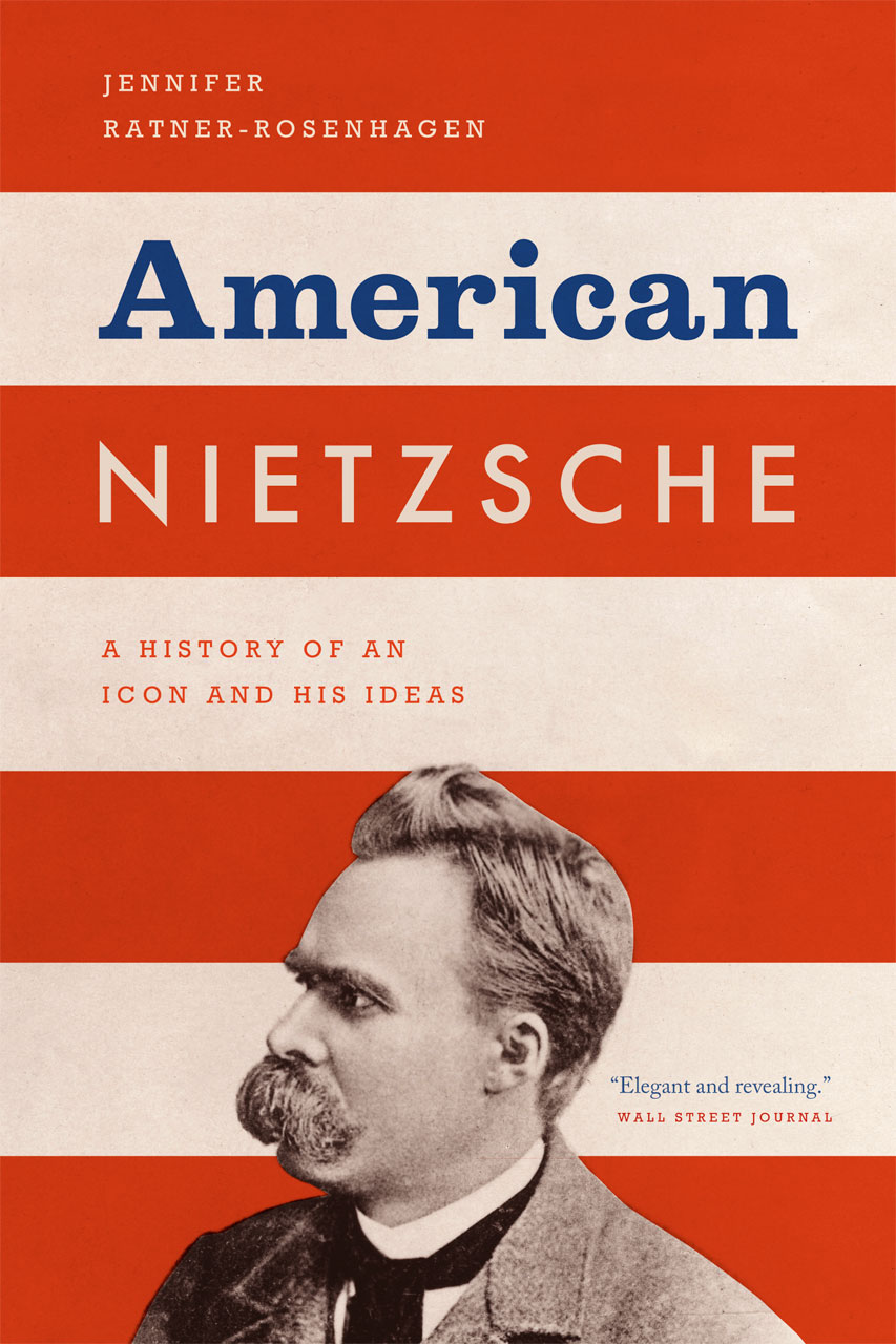 Cover of American Nietzsche by Jennifer Ratner-Rosenhagen